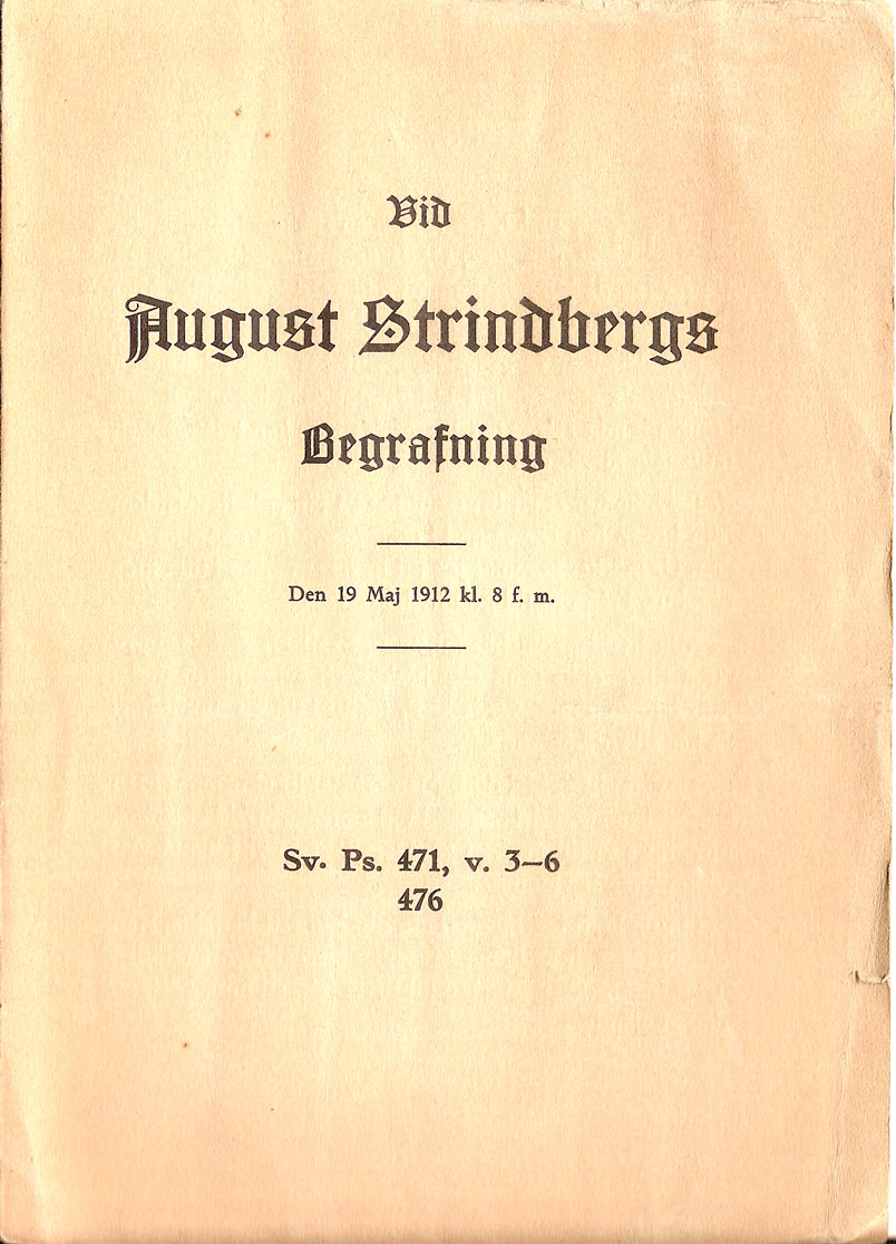 Frontpage for "Vid August Strindbergs begrafning" (swedish) ("At August Strindberg's funeral"), containing two swedish church hymns (swedish "psalmer"), (Sv. Ps. 471 (verse 3-6) and 476), that was sung at the funeral of August Strindberg may 19th 1912.